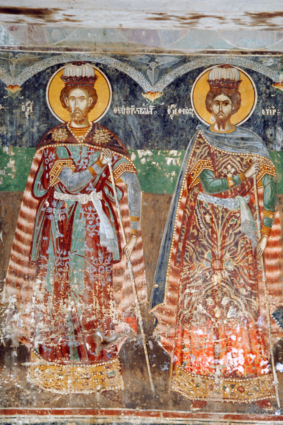 Palatitsia St. Demetrios Church Fresco.